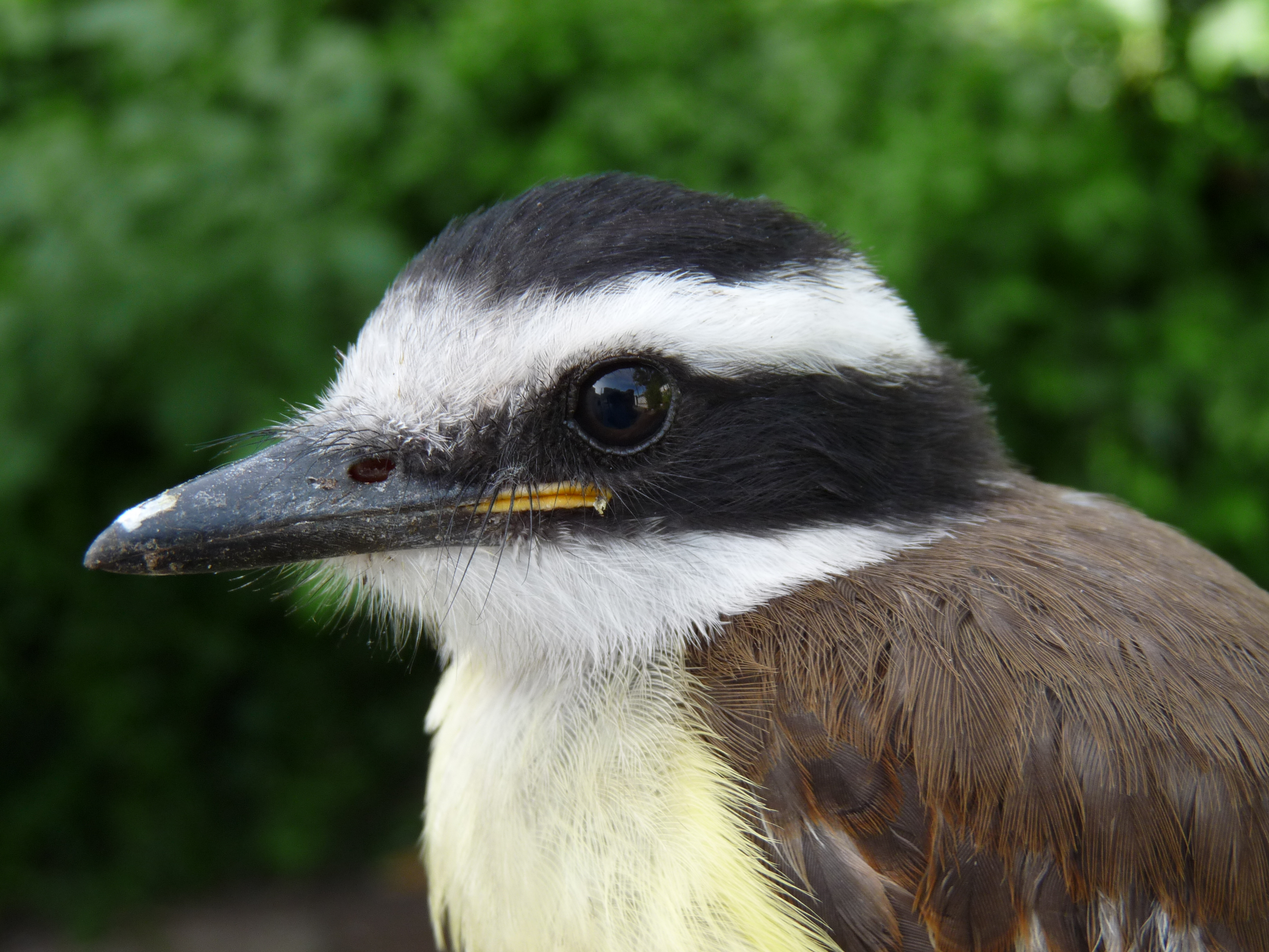 Great Kiskadee (Pitangus sulphuratus) close-up